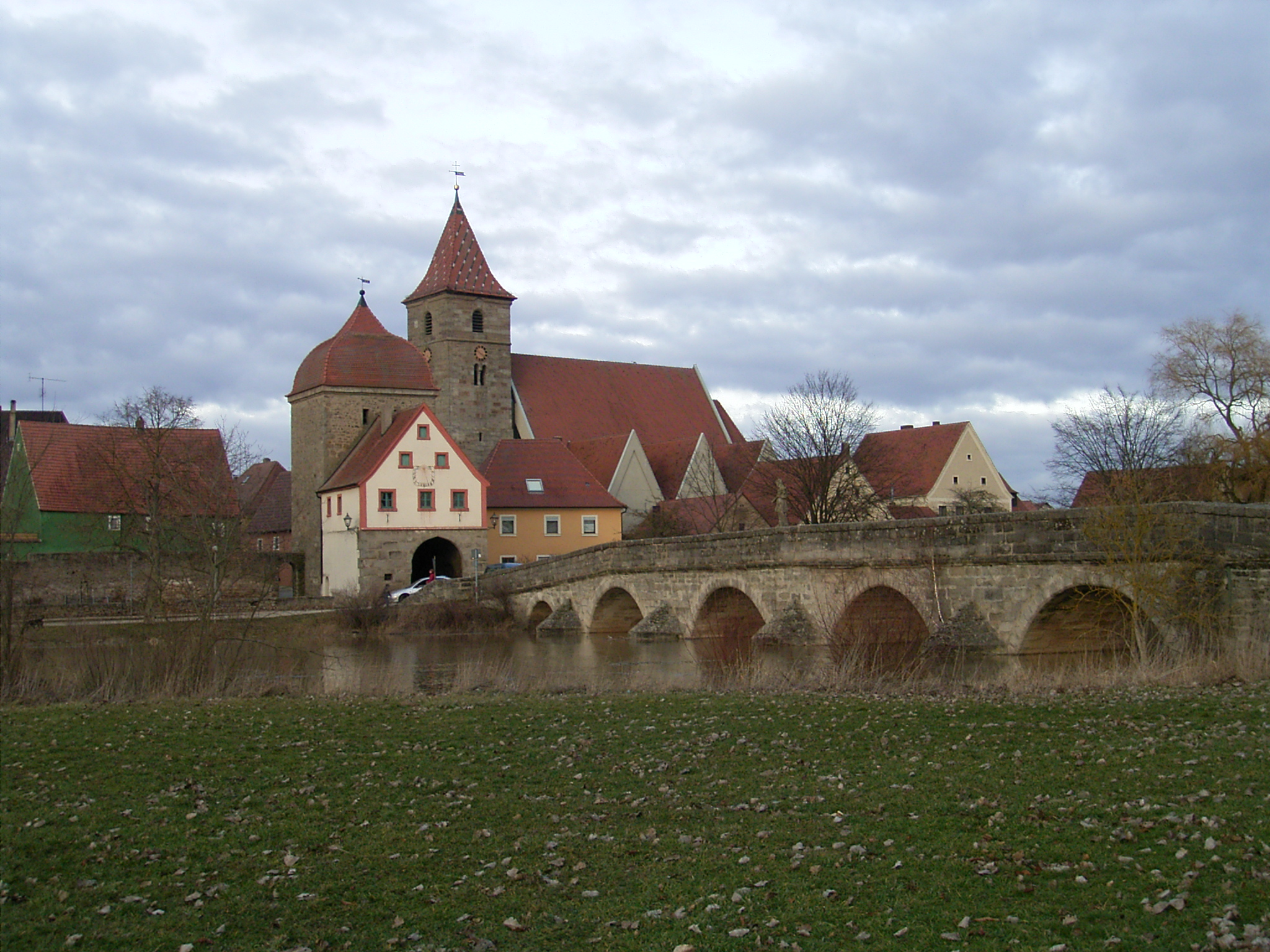 Germany city of Ornbau with river Altmühl and Bridge